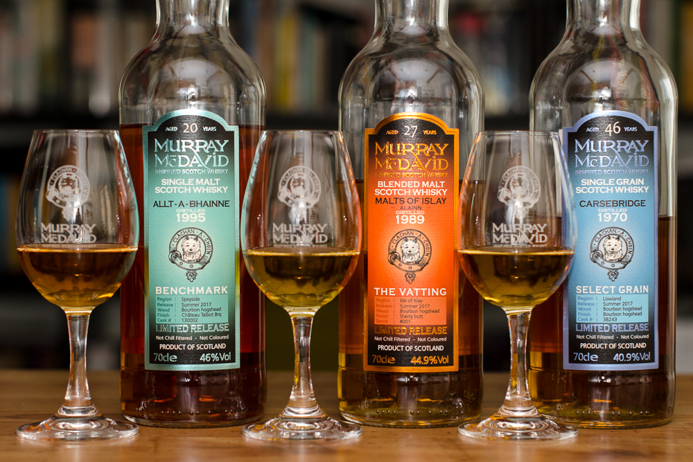 Three bottles representing three lines of Murray McDavid whisky lines - Allt-A-Bhainne (Benchmark), Malts of Islay - Alainn (The Vatting) and Carsebridge (Select Grain).